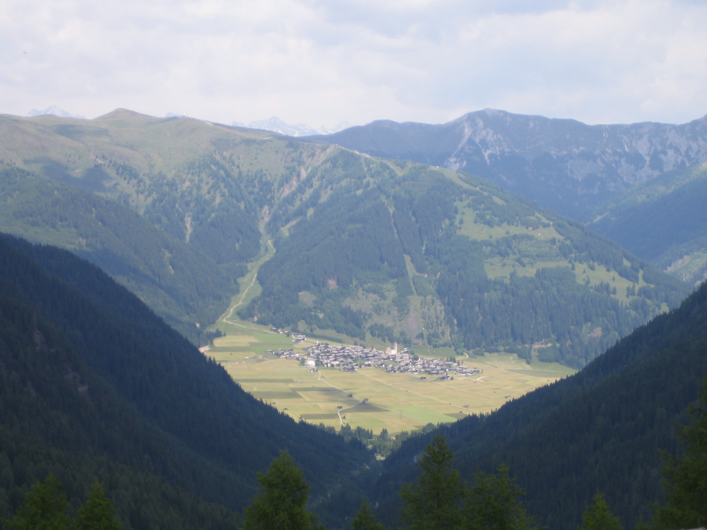 Obertilliach, view from Porze hut